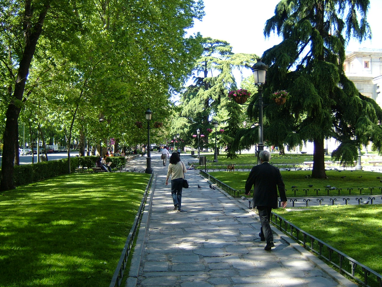 Paseo del Prado (boulevard) in Madrid (Spain).